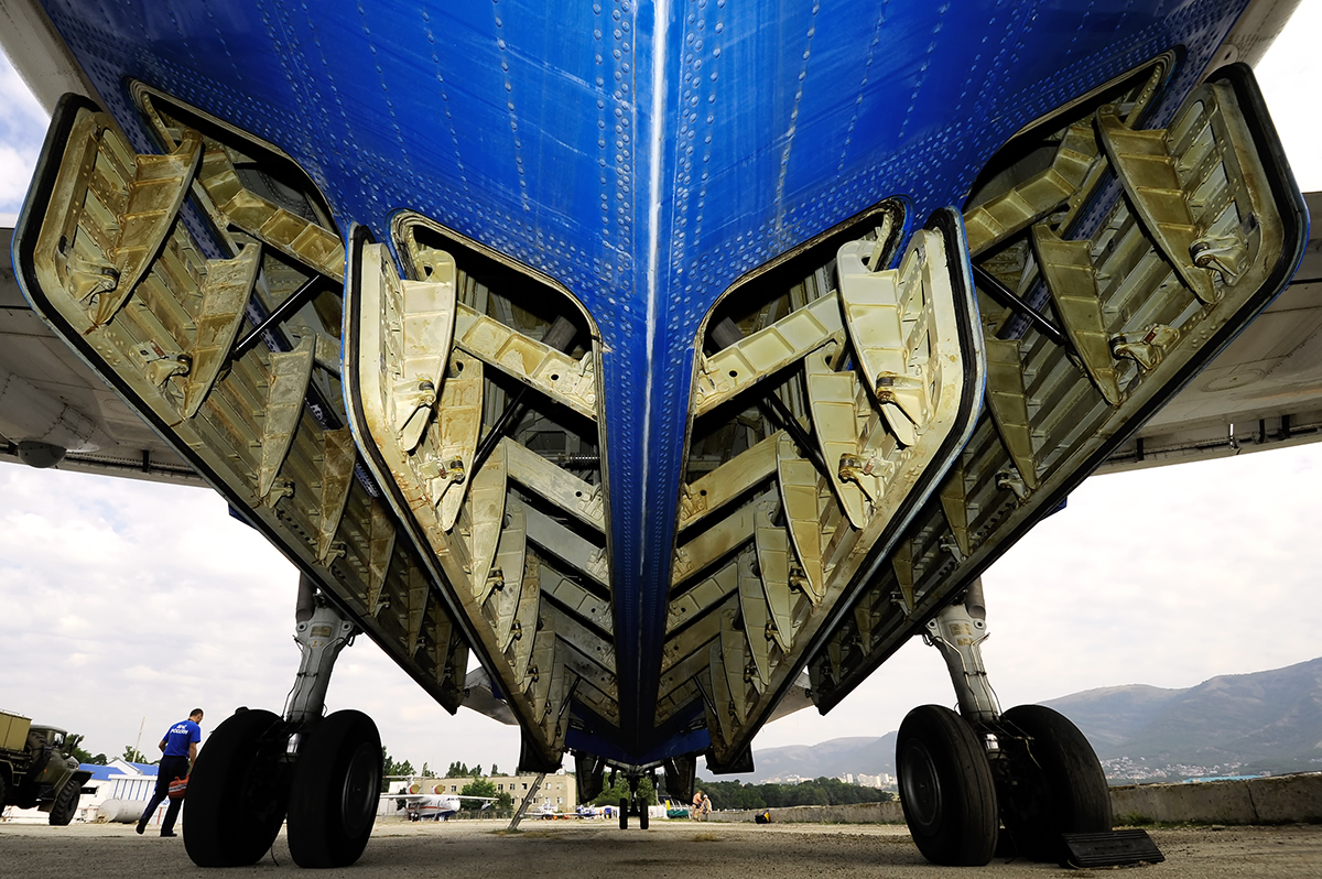 Be-200.Hatches for water dump.